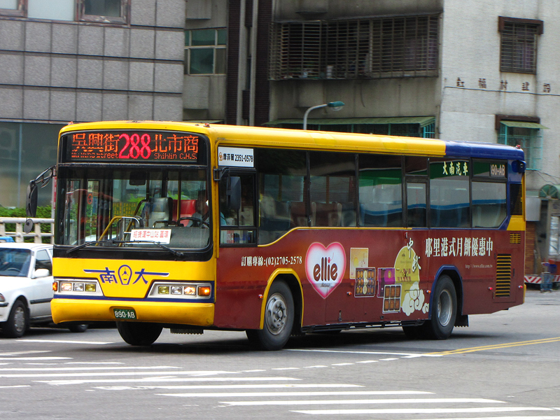 2003 HINO ERK2JRL